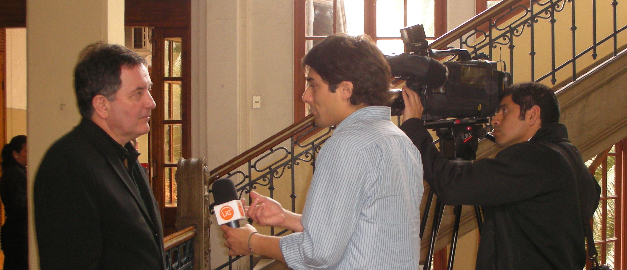 Photo taken by me after a conference in the Catholic University of Vakparaíso